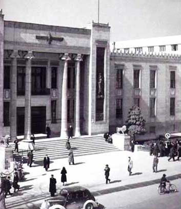 Bank Melli 1946